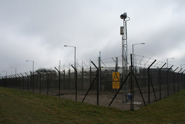 Bacton Gas Terminal Corner of Bacton Gas Terminal